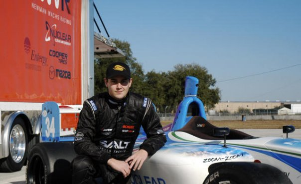 kristjan einar atlantic series car